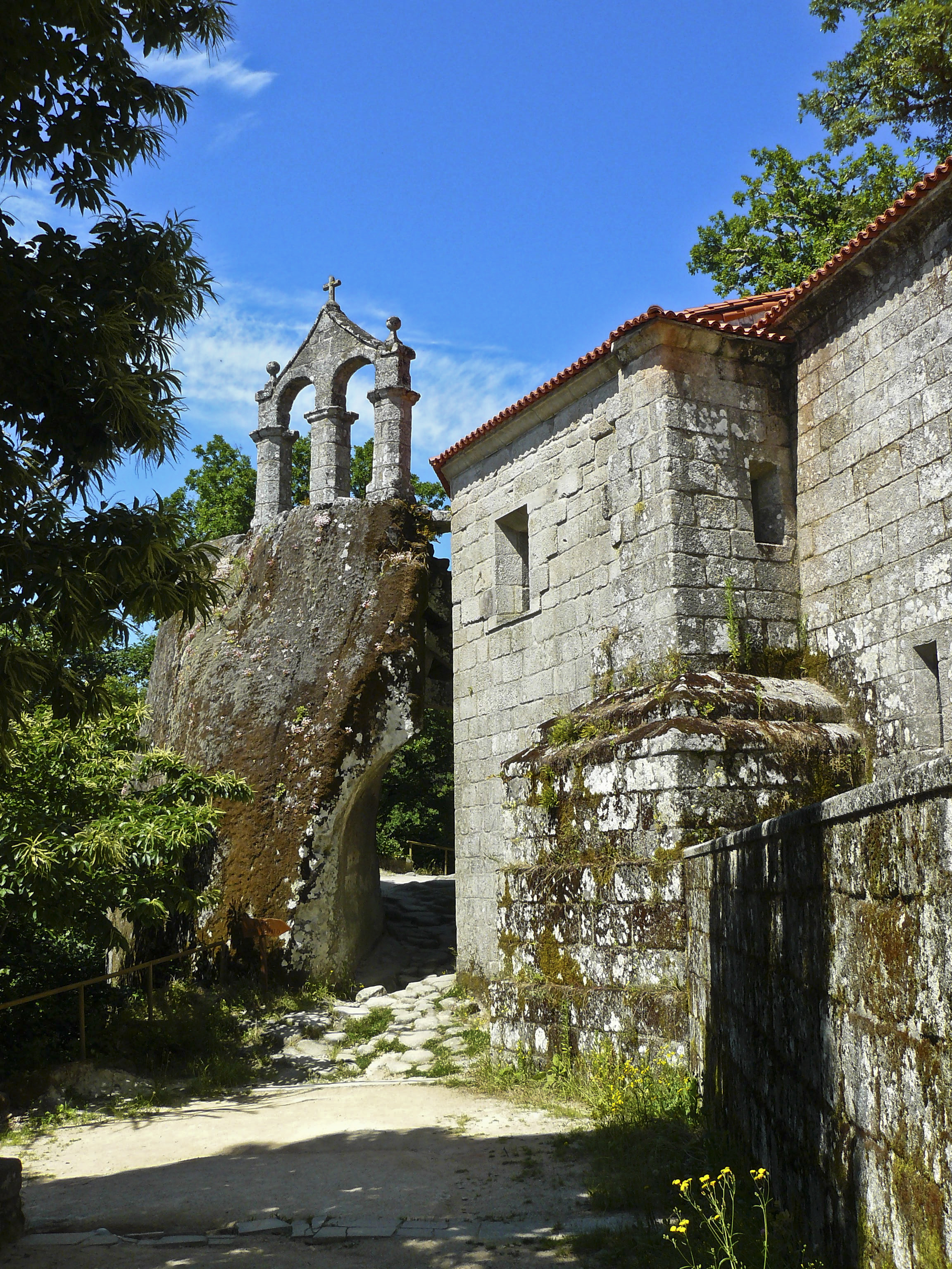 San Pedro de Rocas monastery, Esgos, Ourense, Galicia, (Spain)